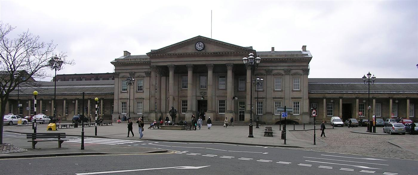 Huddersfield railway station in St Georges Square, A bronze statue of the late former Prime Minister of the United Kingdom Harold Wilson stands in the square before it. Wilson originated from the town.